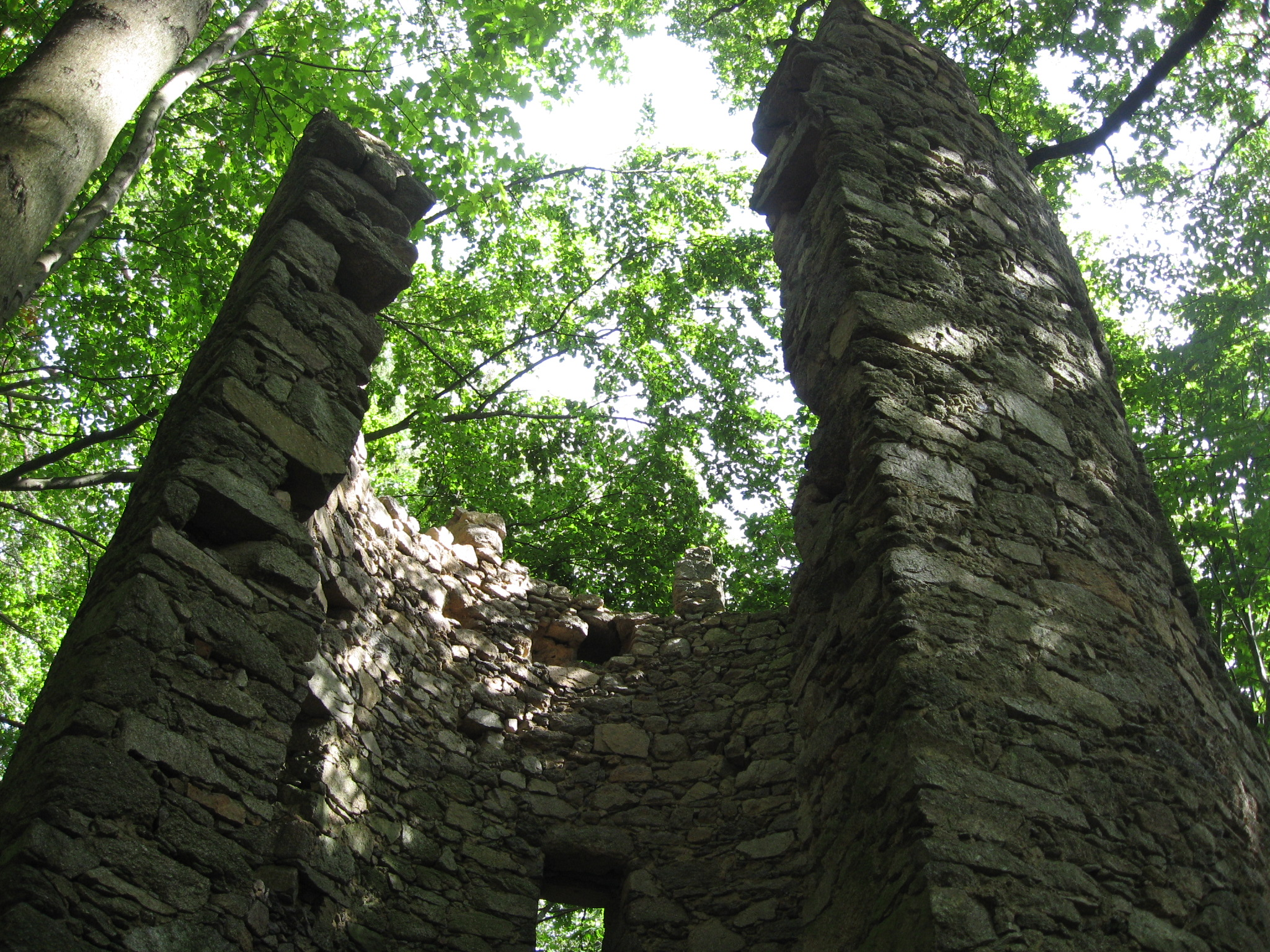 Prašivice - artificial ruins, (Klatovy District, Czech Republic)